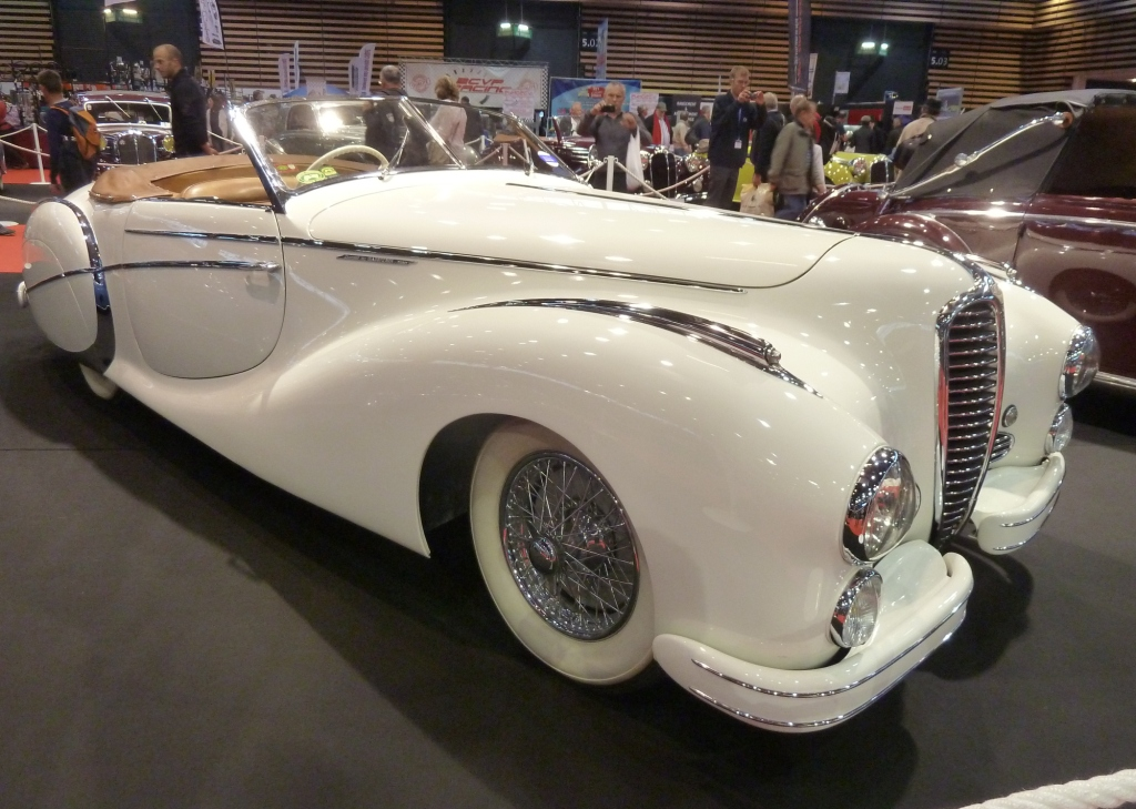 Delahaye cabriolet Saoutchik de 1949